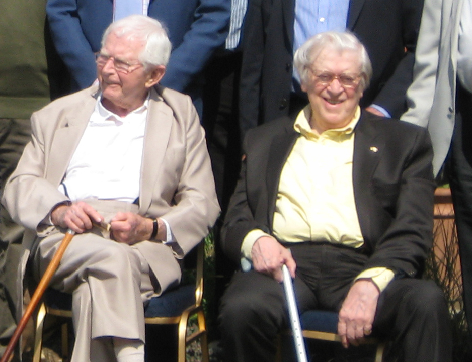 The English television writer and producer David Croft(just a few months before his death) and Jimmy Perry, writers of the TV series Dad's Army, Hi-de-Hi, It Ain't Half Hot Mum and You Rang M'Lord? during a Dad's Army celebration at Bressingham Steam Museum in Norfolk, May 2011.